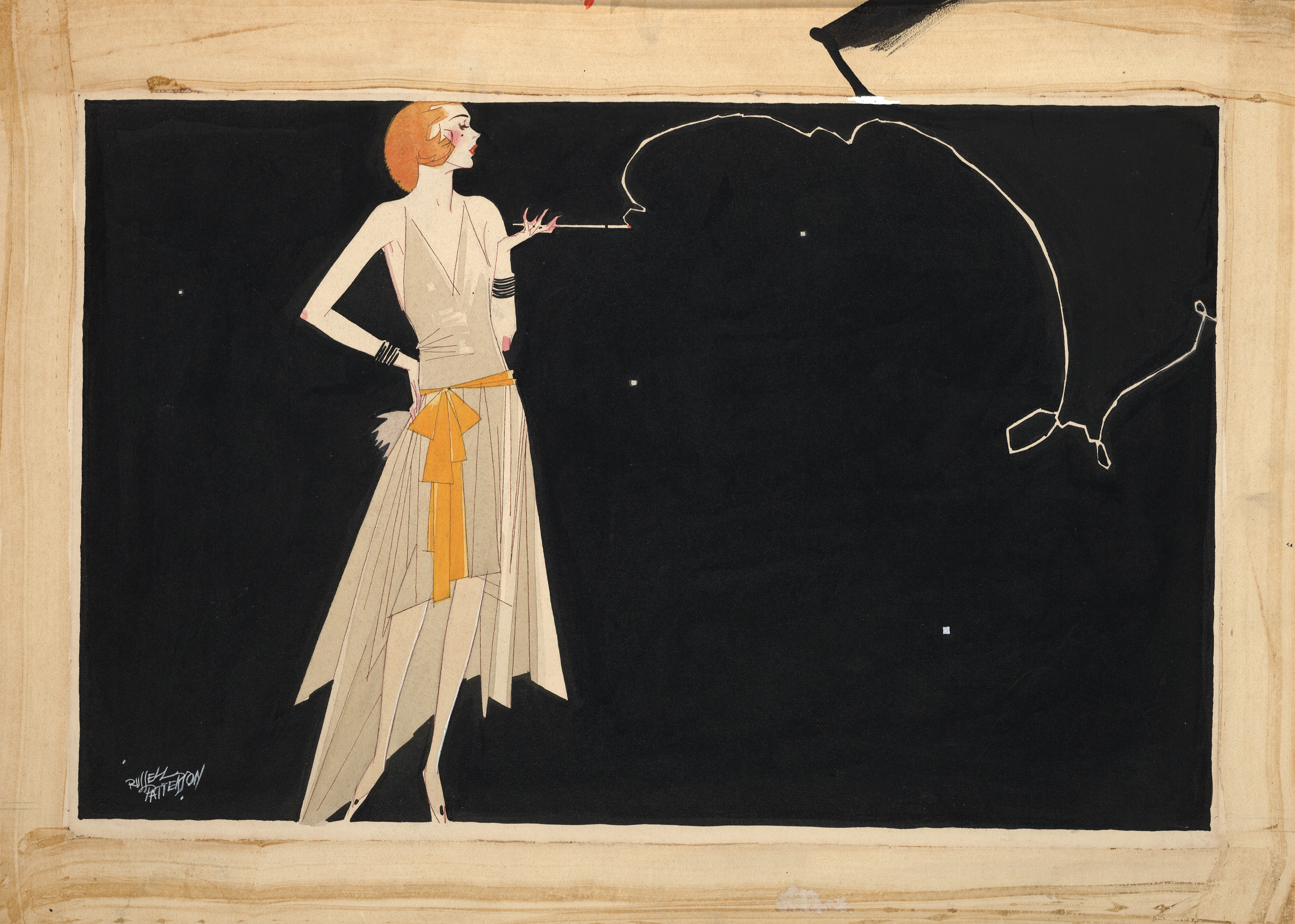 "Where there's smoke there's fire" by American artist Russell Patterson (1893-1977). Full-length illustration of a fashionably dressed flapper standing with one hand on her hip and a cigarette in the other hand. A stream of smoke from the cigarette forms a curving, twisting, decorative line. 1 drawing: India, red and brown inks, with watercolor on illustration board, 45.1 x 59.2 cm. (sheet). Exhibited at "American beauties: drawings from the golden age of illustration", Swann Gallery, Library of Congress, 2002.